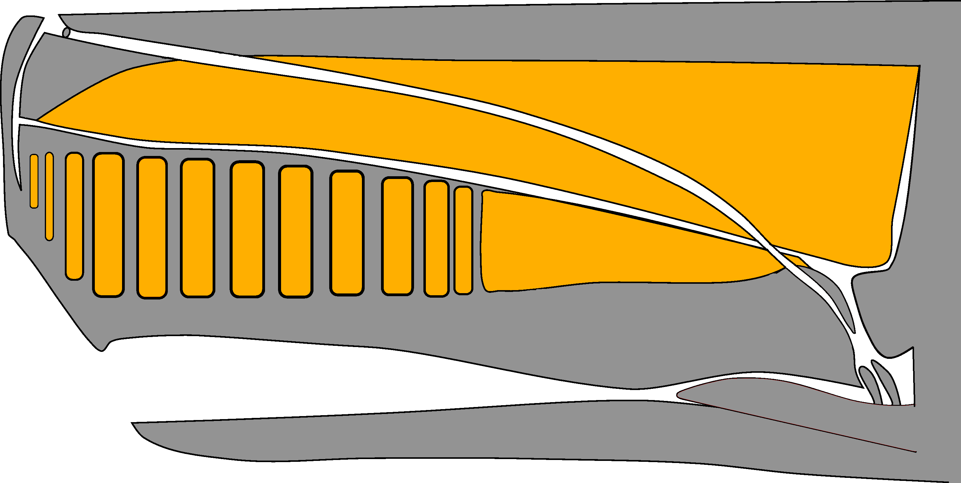 Redrawn after: Malcolm Clarke: Structure and Proportions of the Spermaceti Organ in the Sperm Whale. In: Journal of the Marine Biological Association of the United Kingdom, Vol. 58, 1978, p. 1–17 Muscles red, spermaceti golden, bones dark brown.